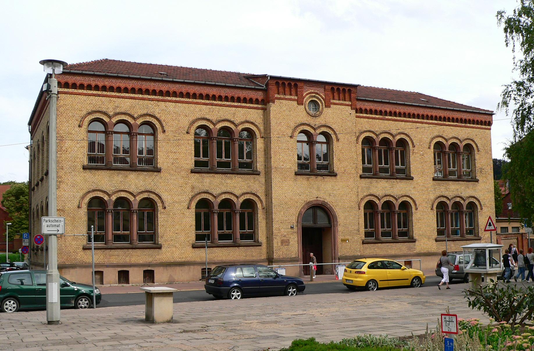 The Ernst-Abbe-Gymnasium - schoolhouse #2.